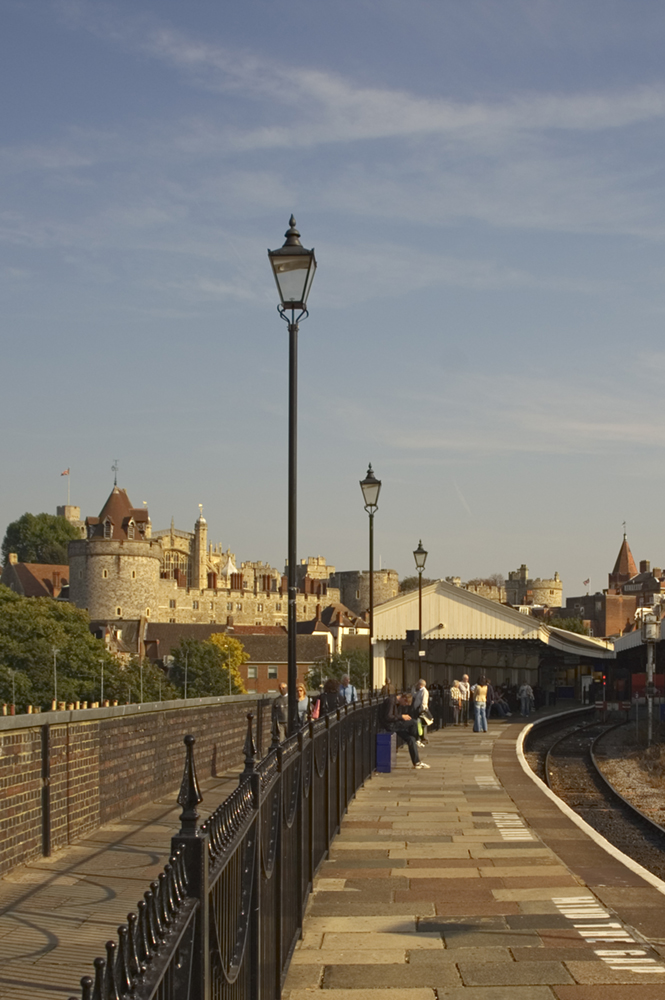 Windsor Central Station looking along the only platform on the branch line to Slough Source: WyrdLight .